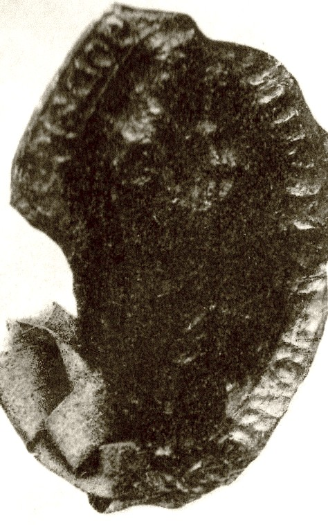 Seal of Abraham, Bishop of Dunblane , which was attached to a charter dated to 1211.